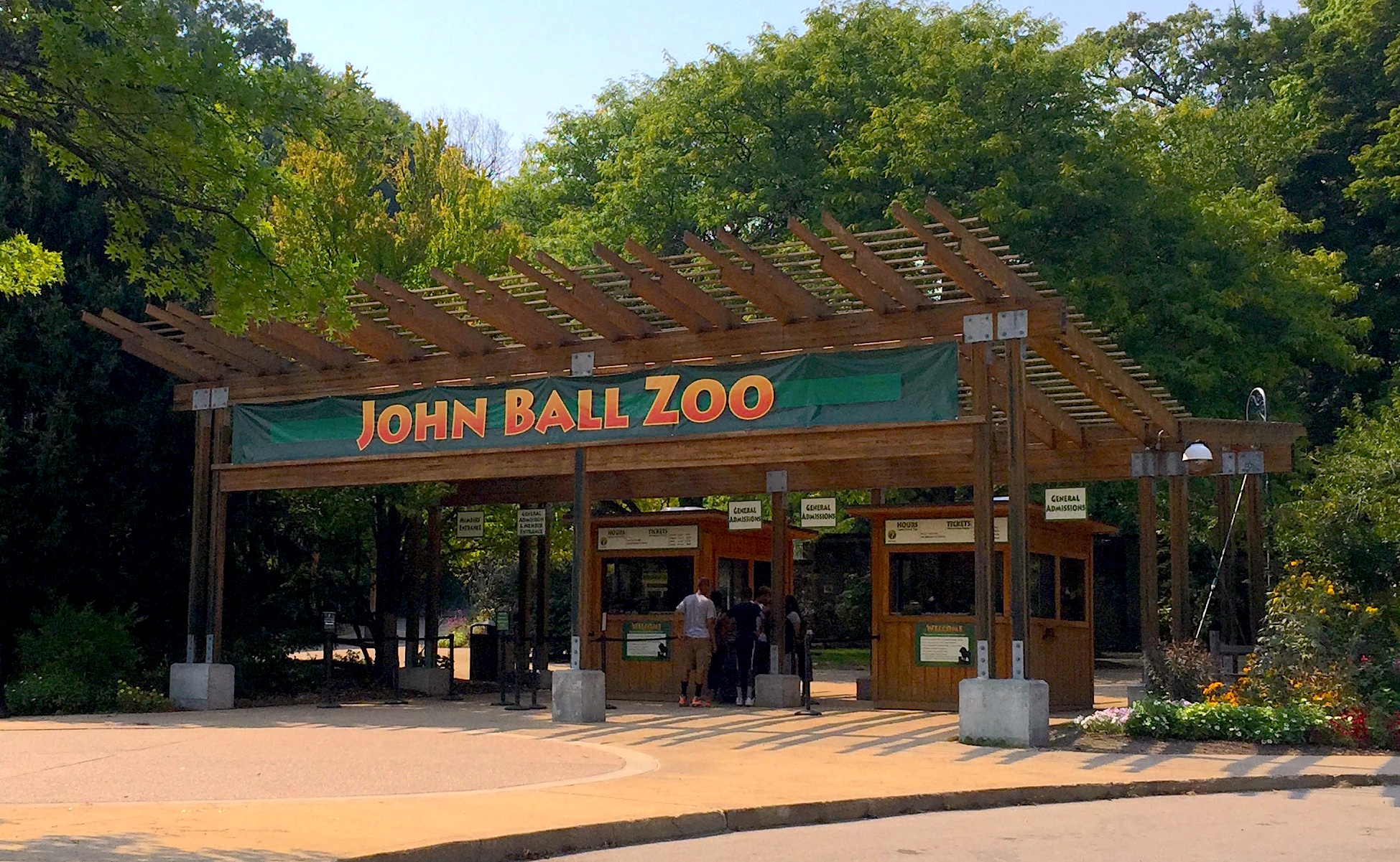 Entrance to John Ball Zoo in Grand Rapids, Michigan.